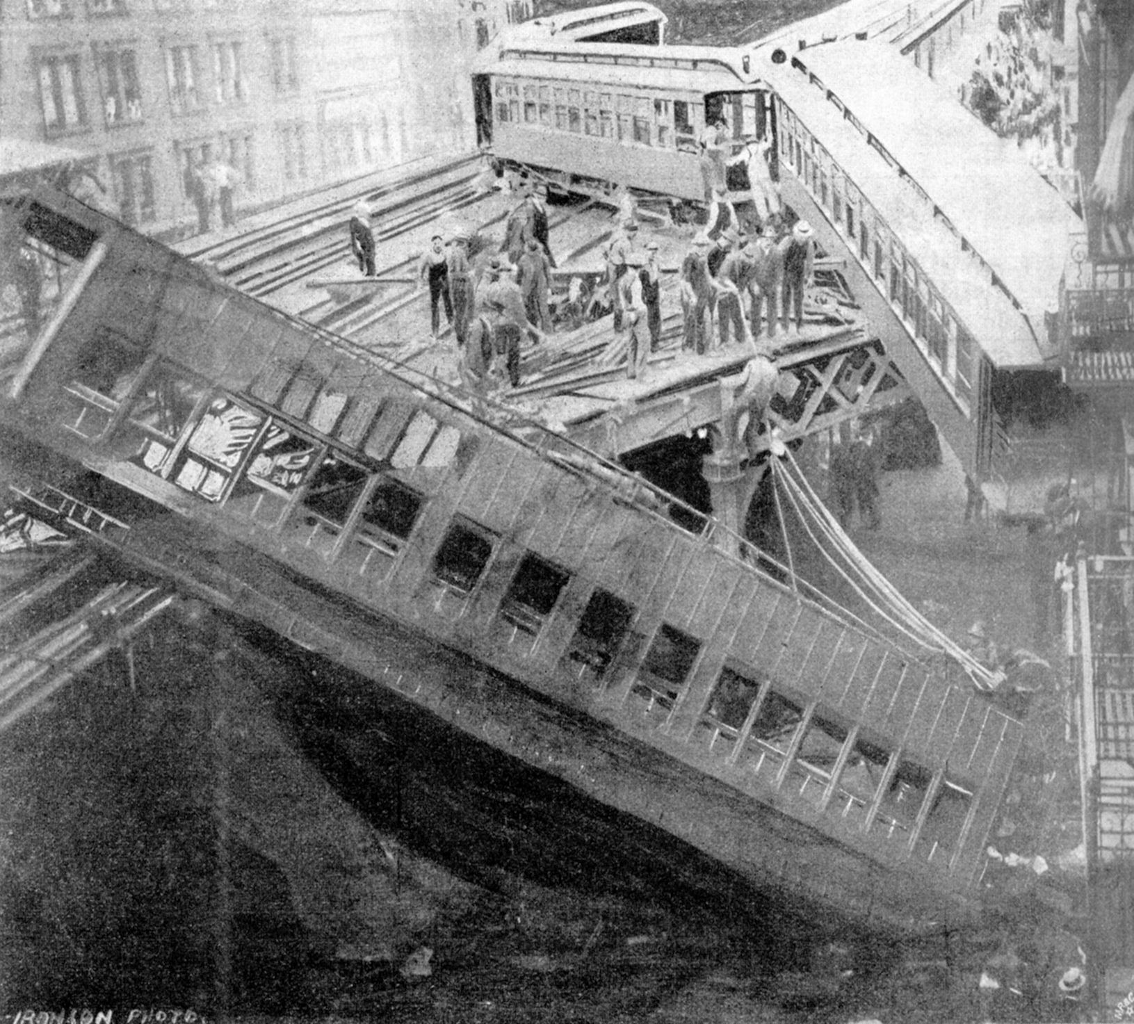 1905-09-11, New York Subway accident, 9th Avenue/53rd Street